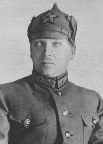 Konstantin Mekhanoshin (1898-1938) - Russian revolutionist, Soviet general and communist activist.